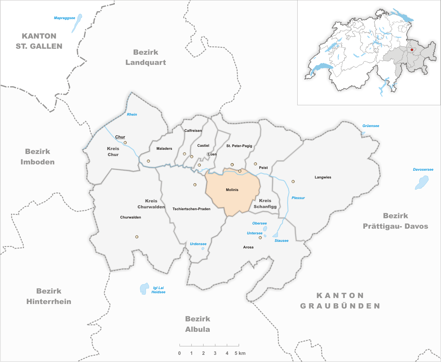 Municipality Molinis